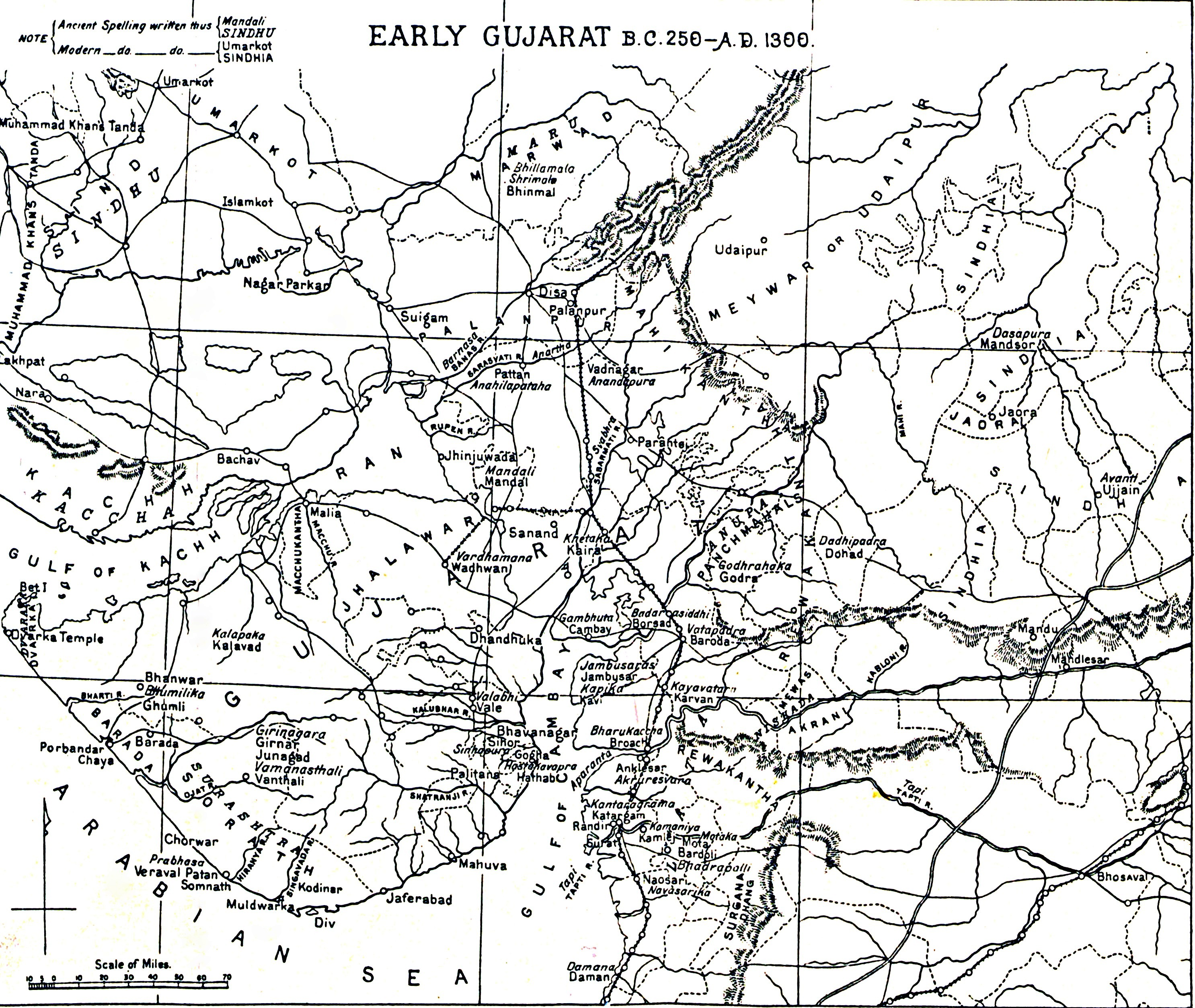 Early Gujarat state of India from 250 BC to 1300 AD